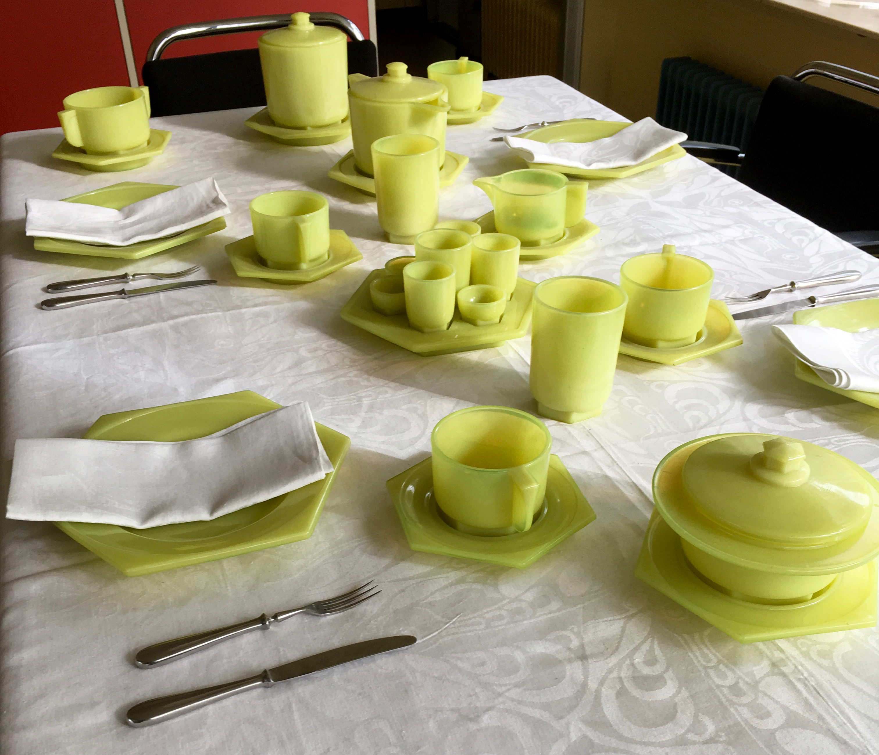 Breakfast set in pressed glass, design by H.P. Berlage and Piet Zwart, displayed on the dining table at House Sonneveld in Rotterdam. Design dates from 1924-1927.